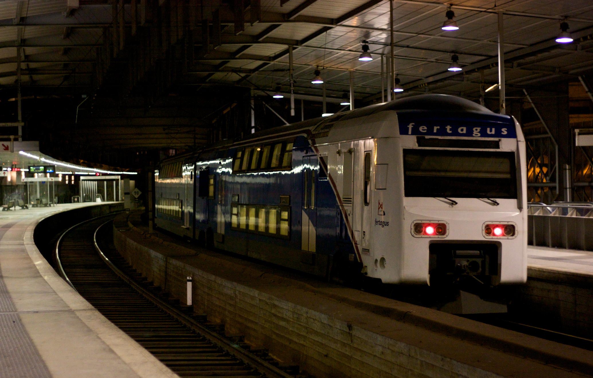 Fertagus suburban train (train type 3500, no. 3517) at Entrecampos train station in Lisbon, Portugal